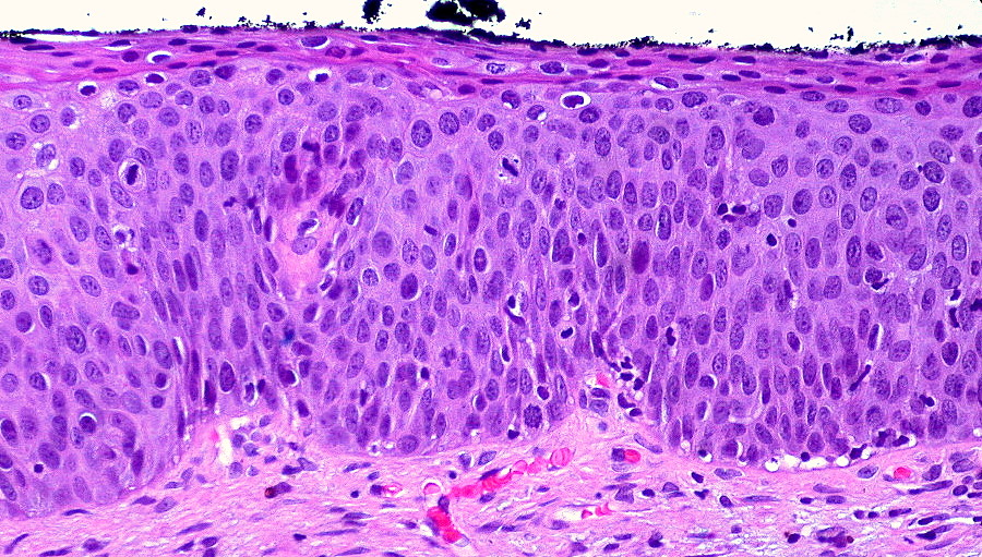 Exocervix, from the LEEP specimen of an 18-year-old woman who showed LSIL on ThinPrep, and HSIL (CIN2) on colposcopic biopsy. I would call this CIN2 (moderate dysplasia) but wouldn't argue with anyone calling it CIN3 (severe dyslasia). To compare with the normal appearance of squamous epithelium, see image from a normal area of the same patient's specimen. Pathological and histological images courtesy of Ed Uthman at flickr.